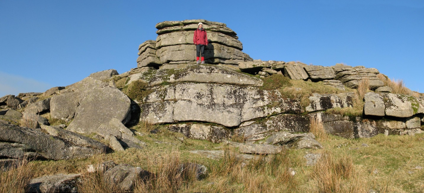 The site of the Stannary Parliament on Crockern Tor, Dartmoor, England.